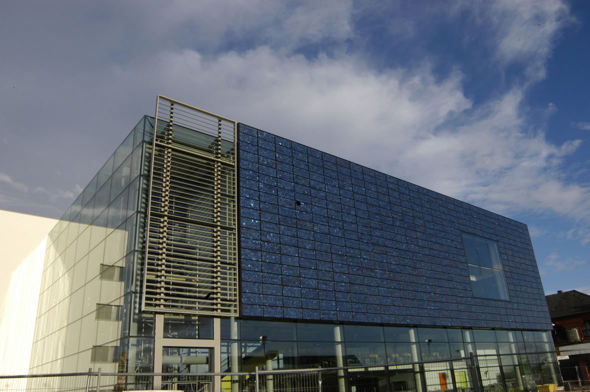 Image of North City Library, Harpurhey, Manchester, UK